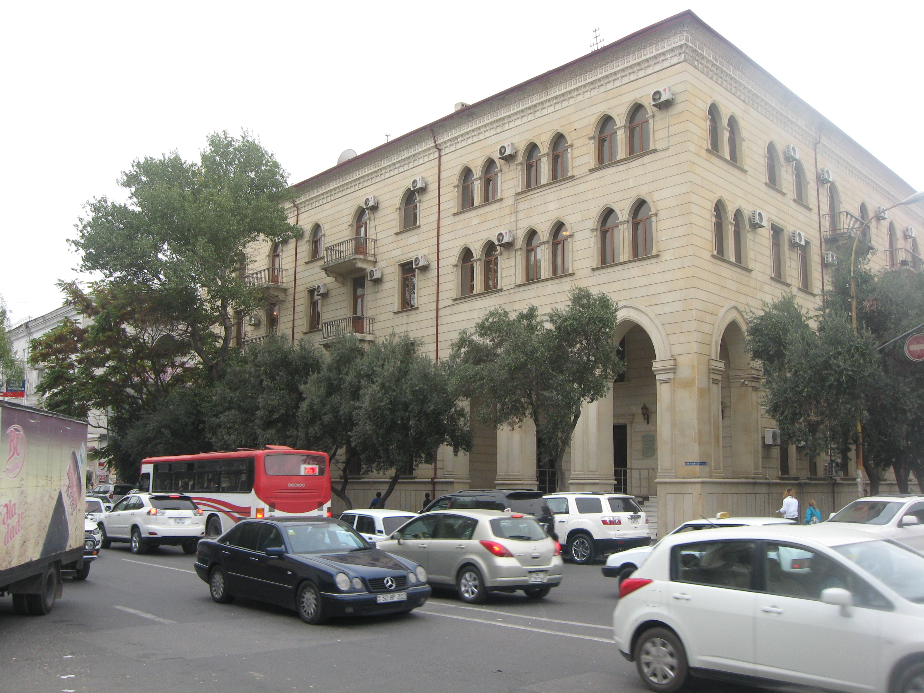 Traffic on the Aga Nematulla Street